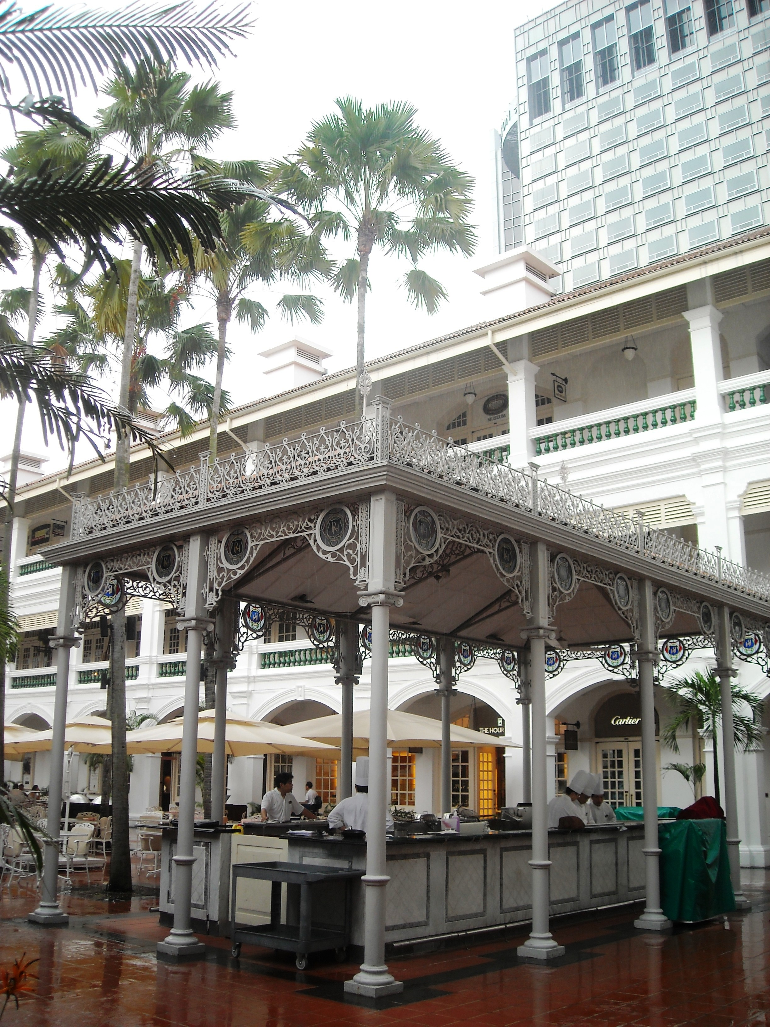 Raffles Hotel, Palm Court Wing